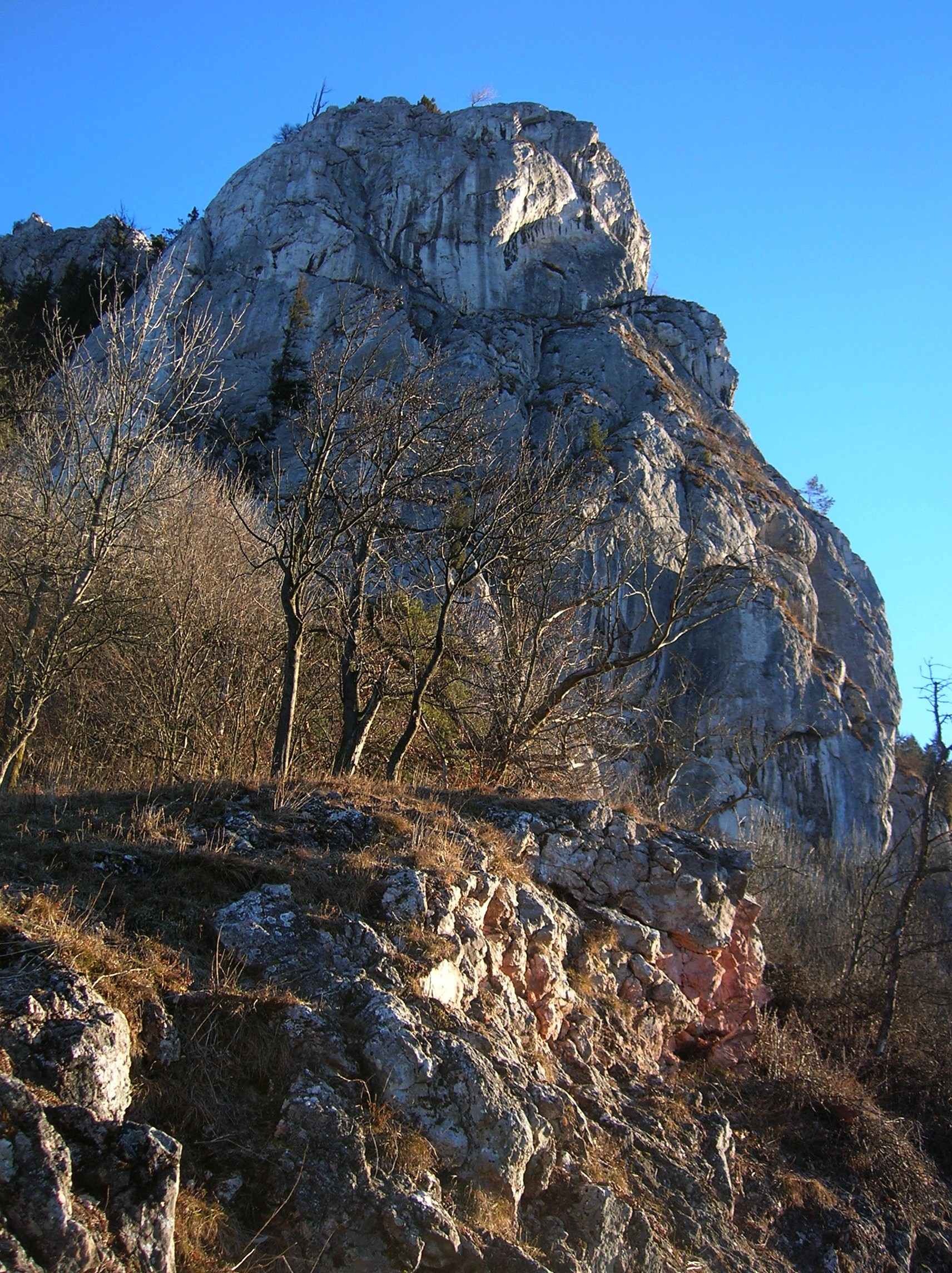 Röthelstein, situated southwest of the Rote Wand